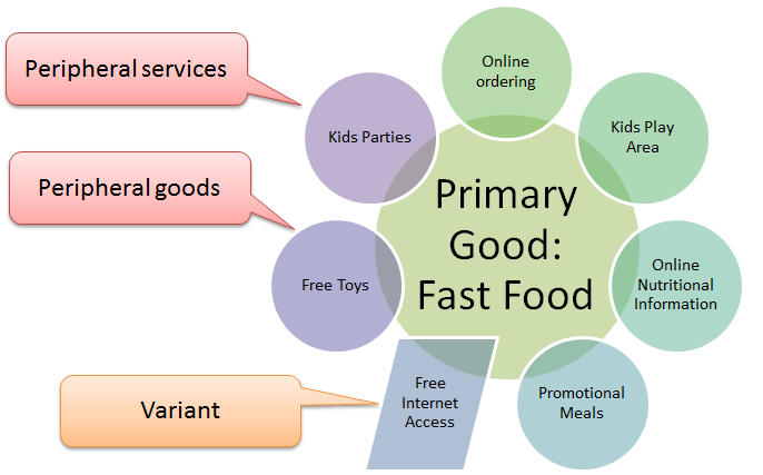 Depicts the tangible goods and tangible services combined with a primary good to create an complete Customer Benefit Package for a customer.